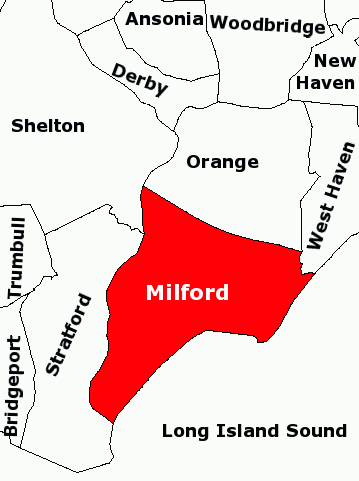 Subject: Map of Townships neighboring Milford, Ct, with Milford highlighted. Derived from sub-county SVG map of Connecticut at Libre Map Project using Adobe SVG viewer and Gimp 2.2.1.3